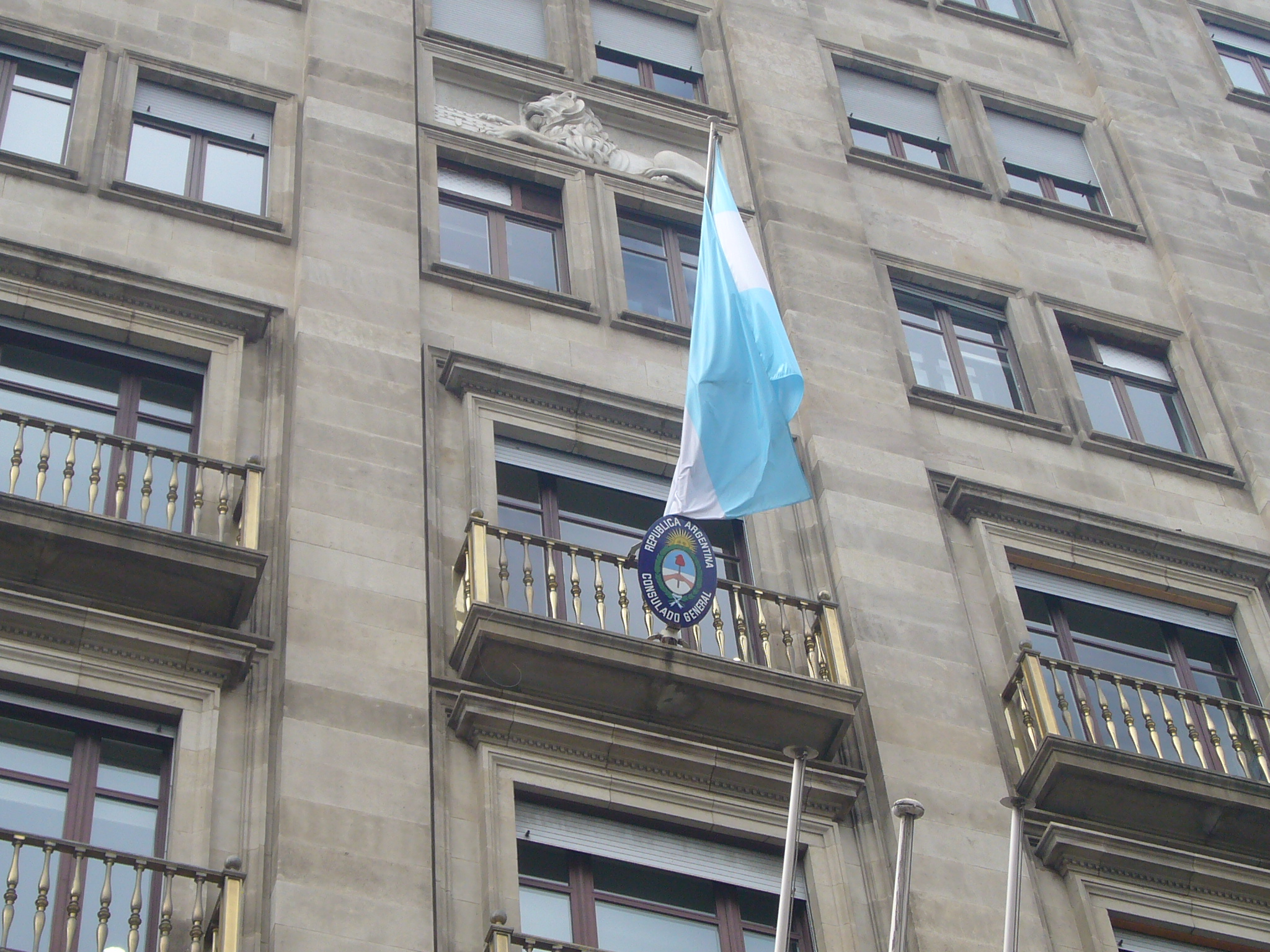 Vitalicio Seguros building (passeig de Gràcia)